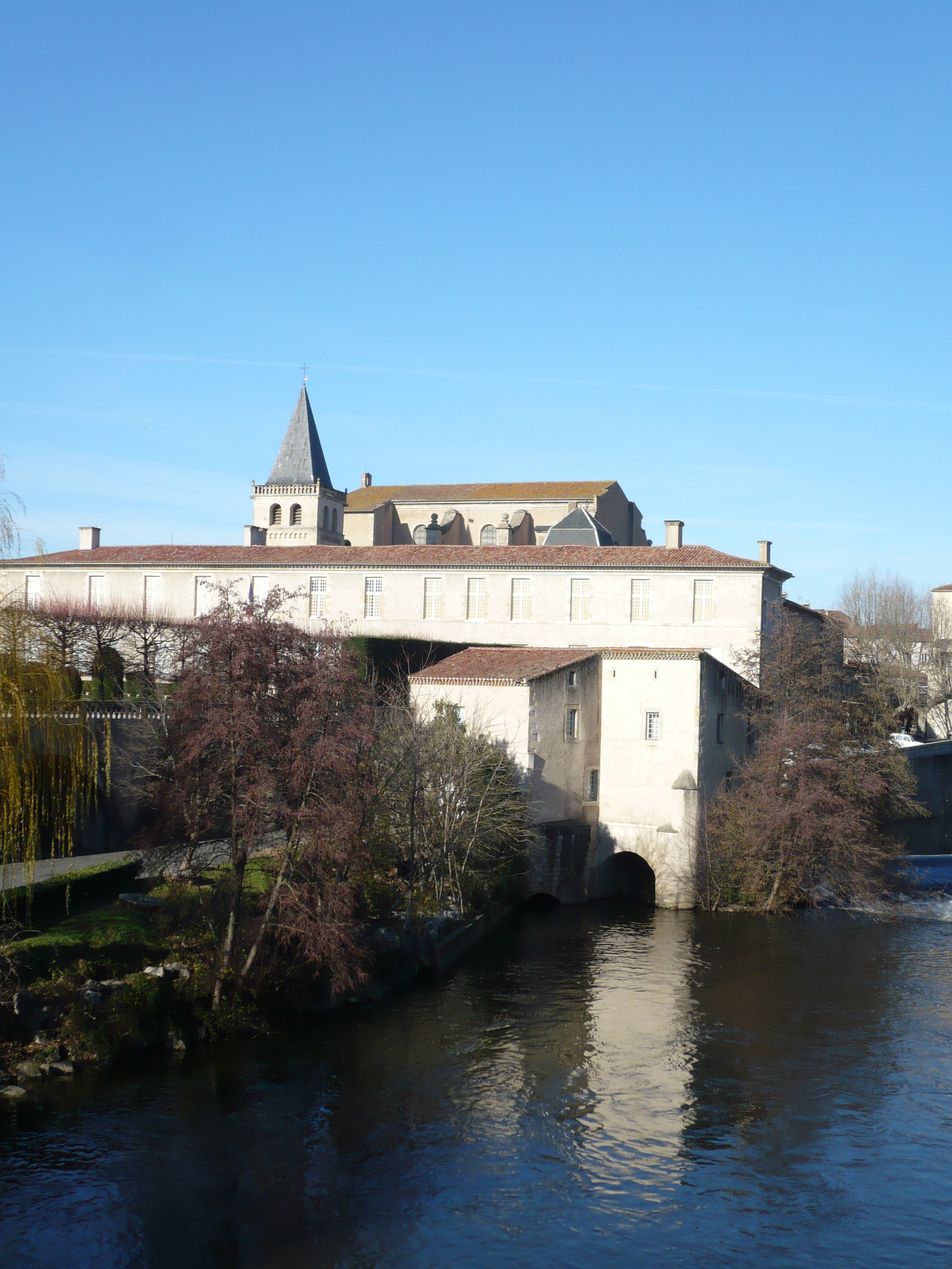 Castres